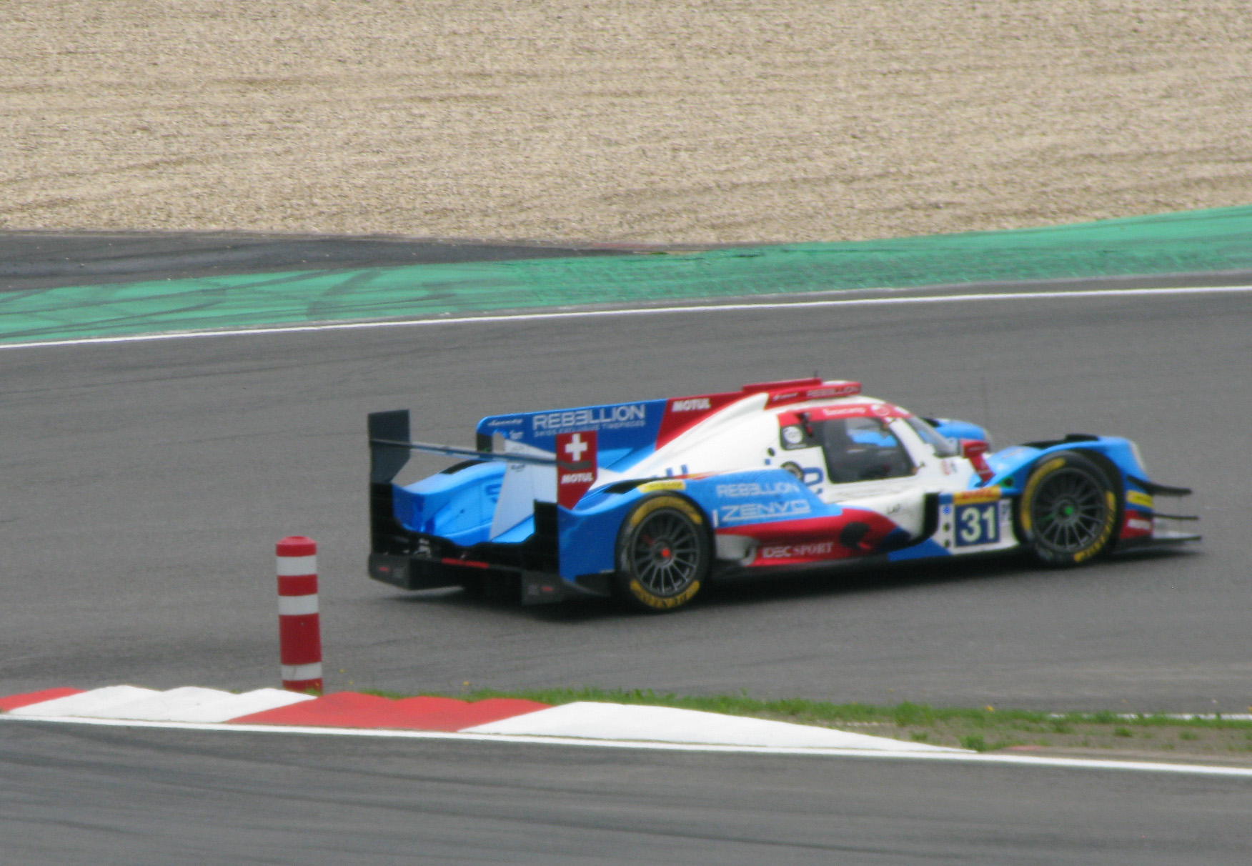 31 Oreca 07 of Vaillante Rebellion.